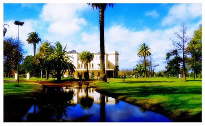 The Olivera House, Parque Avellaneda, Buenos Aires.